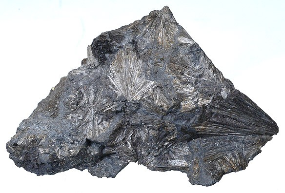 Pyrolusite Locality: Broken Hill, Yancowinna County, New South Wales, Australia (Locality at ) Size: 6.6 x 4.5 x 2.3 cm. A classic fibrous Pyrolusite specimen from this well known locality. Very rich with excellent silvery-brass color, and crystallized on both sides.